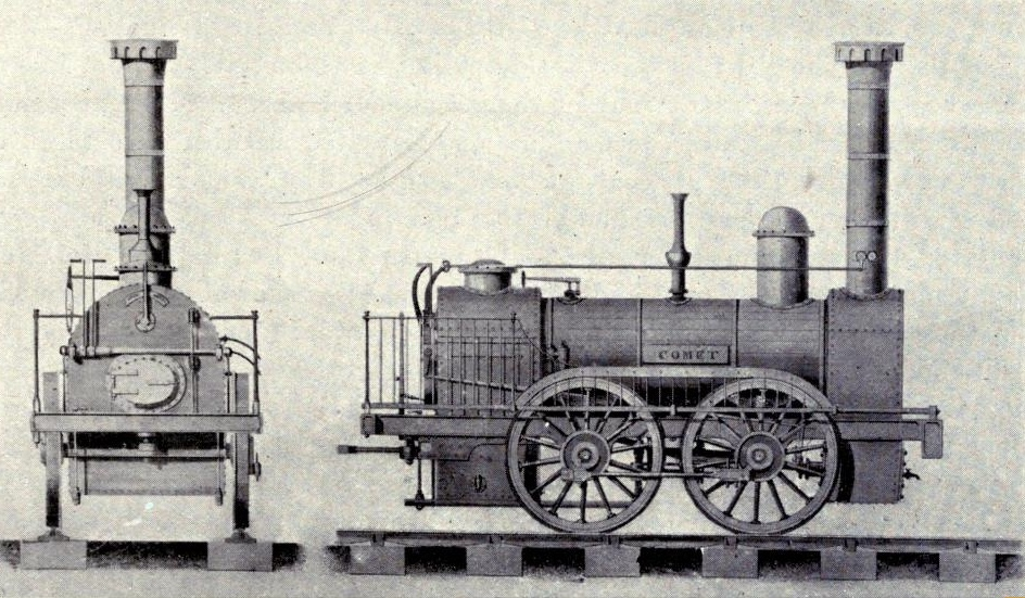 Comet was built by RW Hawthorns for the opening of the Newcastle and Carlisle Railway in 1834.